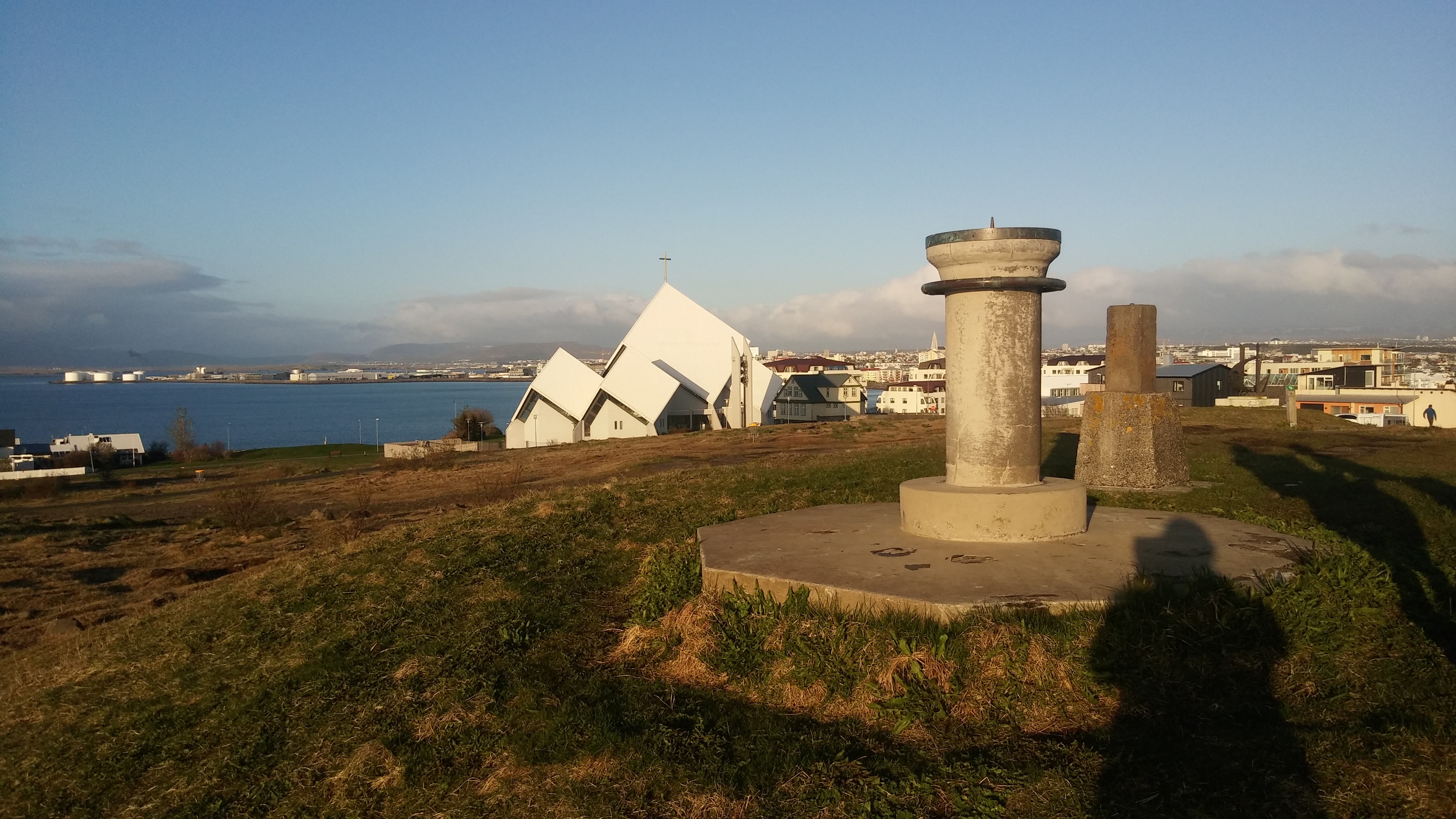 Photograph showing the toposcope at the top of Valhúsahæð hill in Seltjarnarnes. Seltjarnarneskirkja and Reykjavík can be seen in the background.